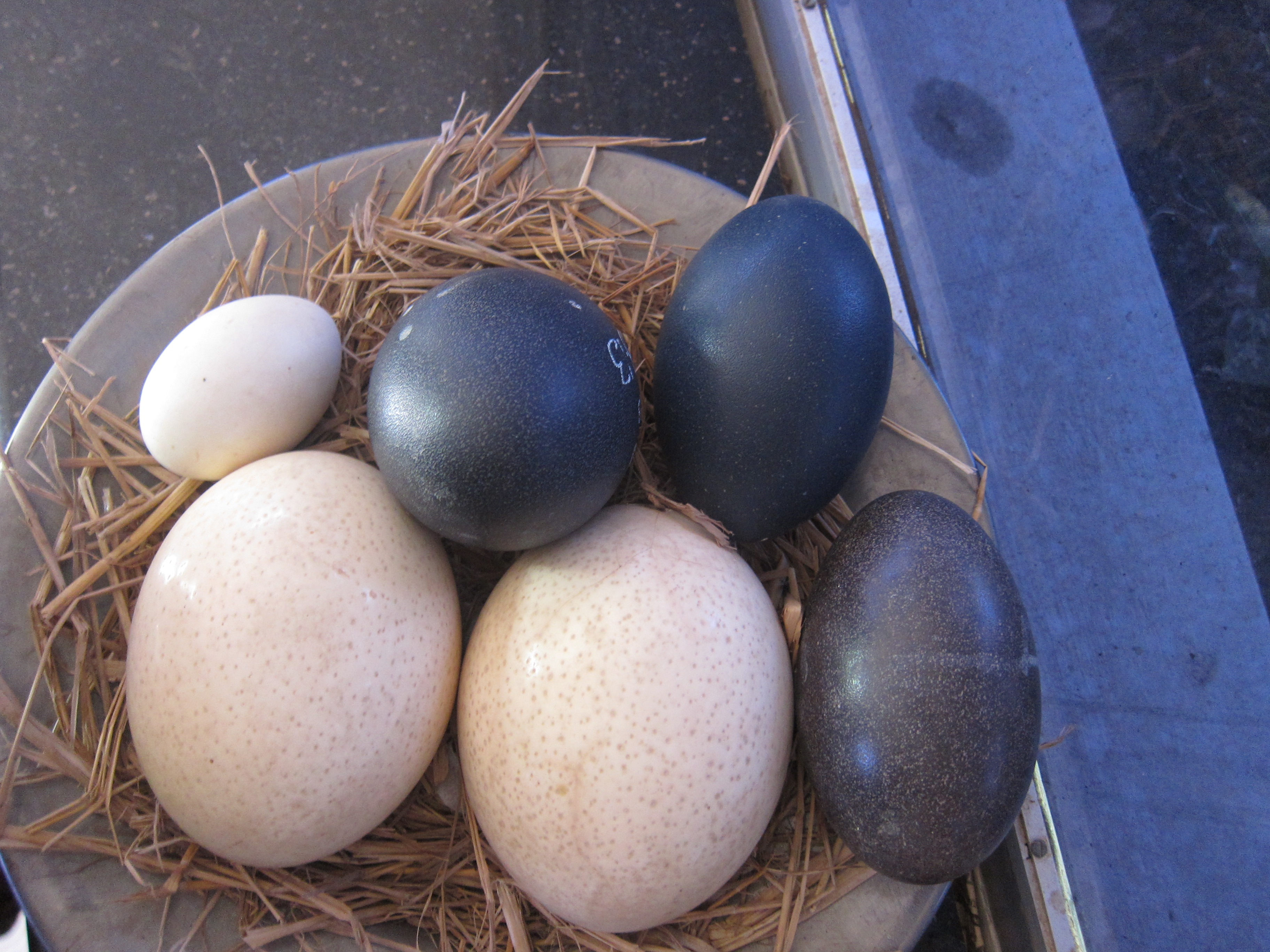 Ostrich Egg - വലിയ വെളുത്ത മുട്ട...ഒട്ടകപക്ഷിയുടെ മുട്ട... മുട്ടകളിൽ വമ്പൻ, ഇതിലും വലിയ മുട്ട, ആനമൊട്ട തന്നെ... Emu Egg - കറുത്ത മുട്ട - എമുവിന്റെ മുട്ട Duck Egg - വെളുത്ത ചെറിയ മുട്ട - താറാവിന്റെ മുട്ട...